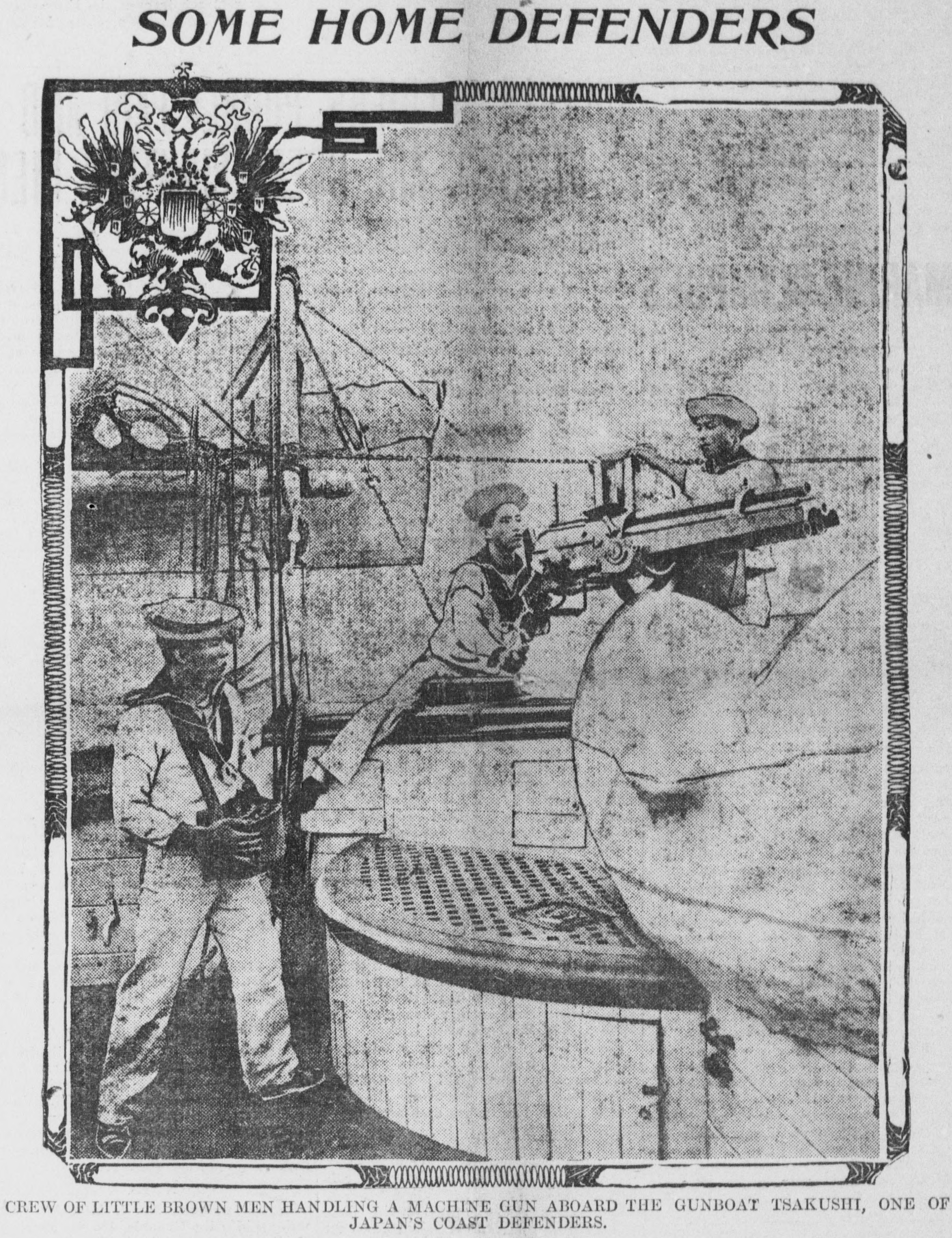 "SOME HOME DEFENDERS Crew of little brown men handling a machine gun aboard the gunboat Tsakushi, one of Japan's coast defenders."